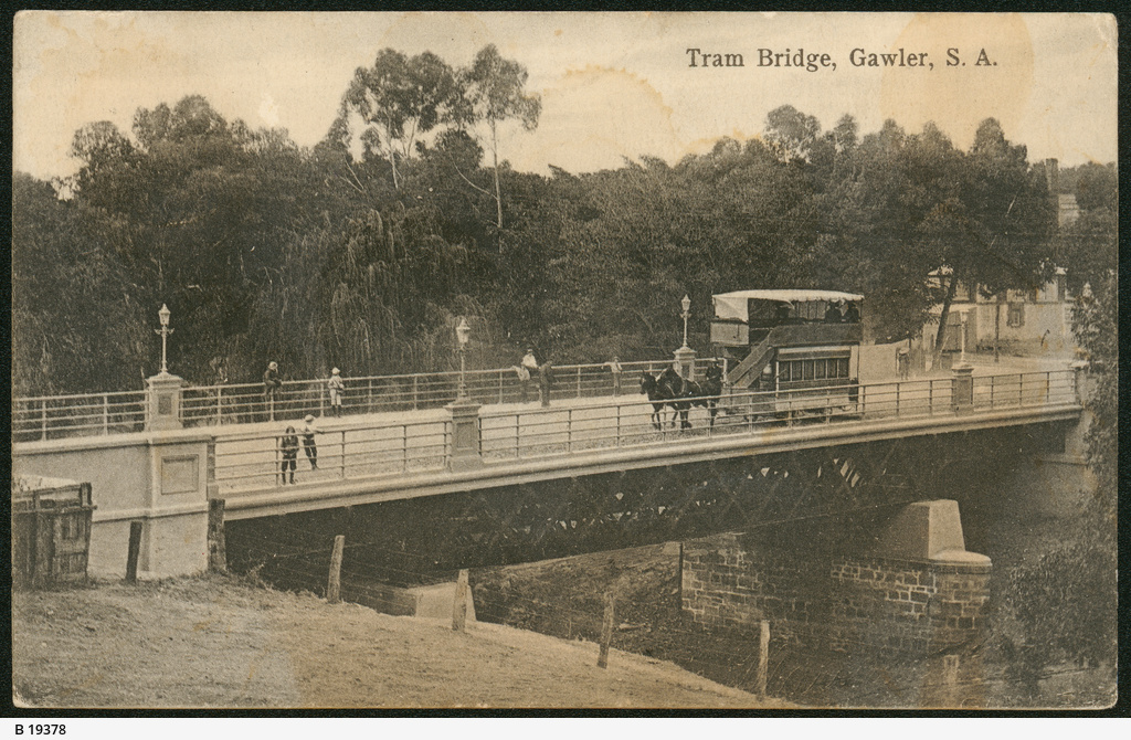 Horse Tram crossing the bridge in Gawler, South Australia